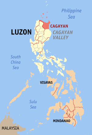 Map of the Philippines showing the location of Cagayan